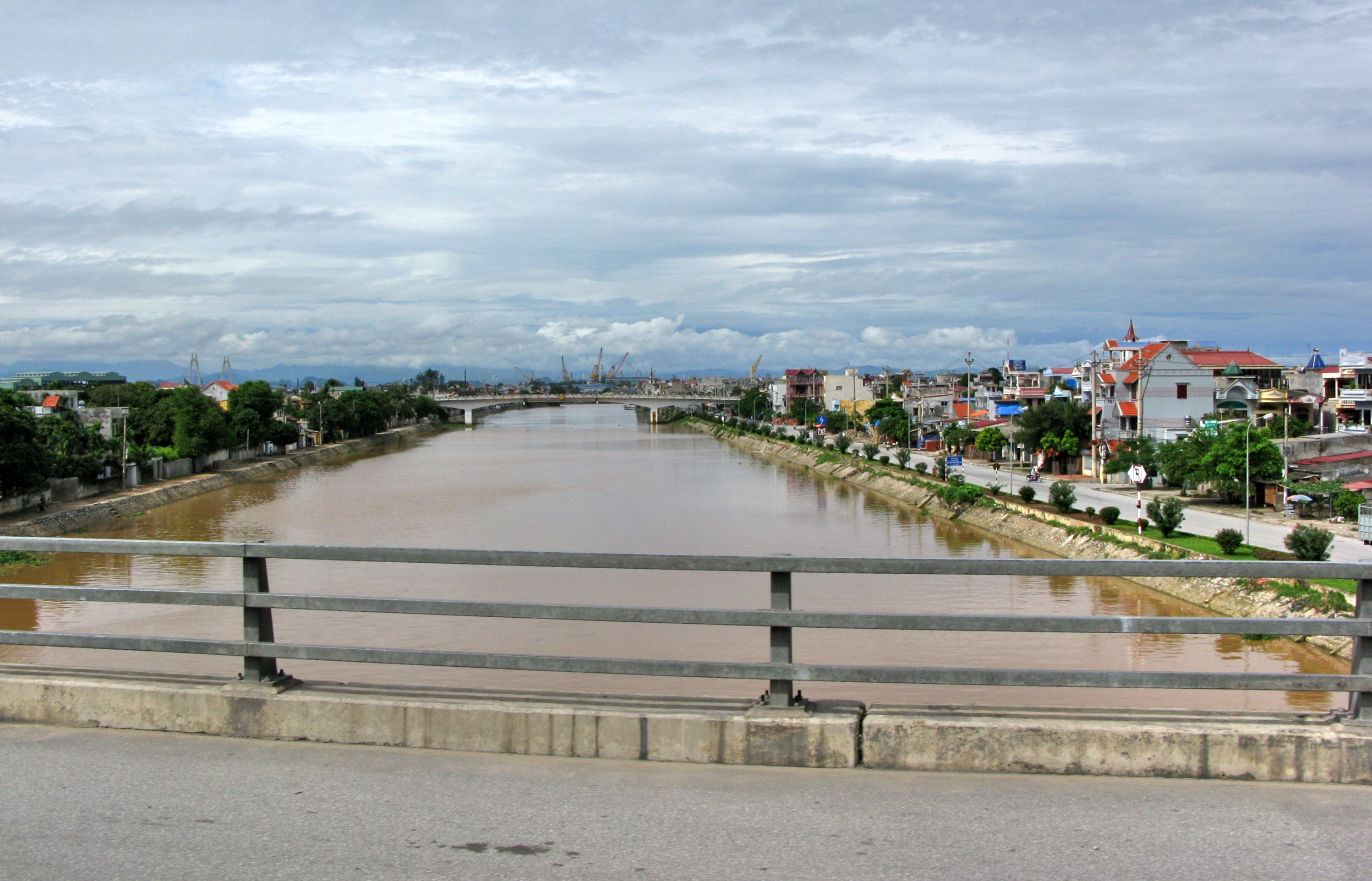 Lạch tray River viewed from An đồng Bridge in Hai Phong, Vietnam.